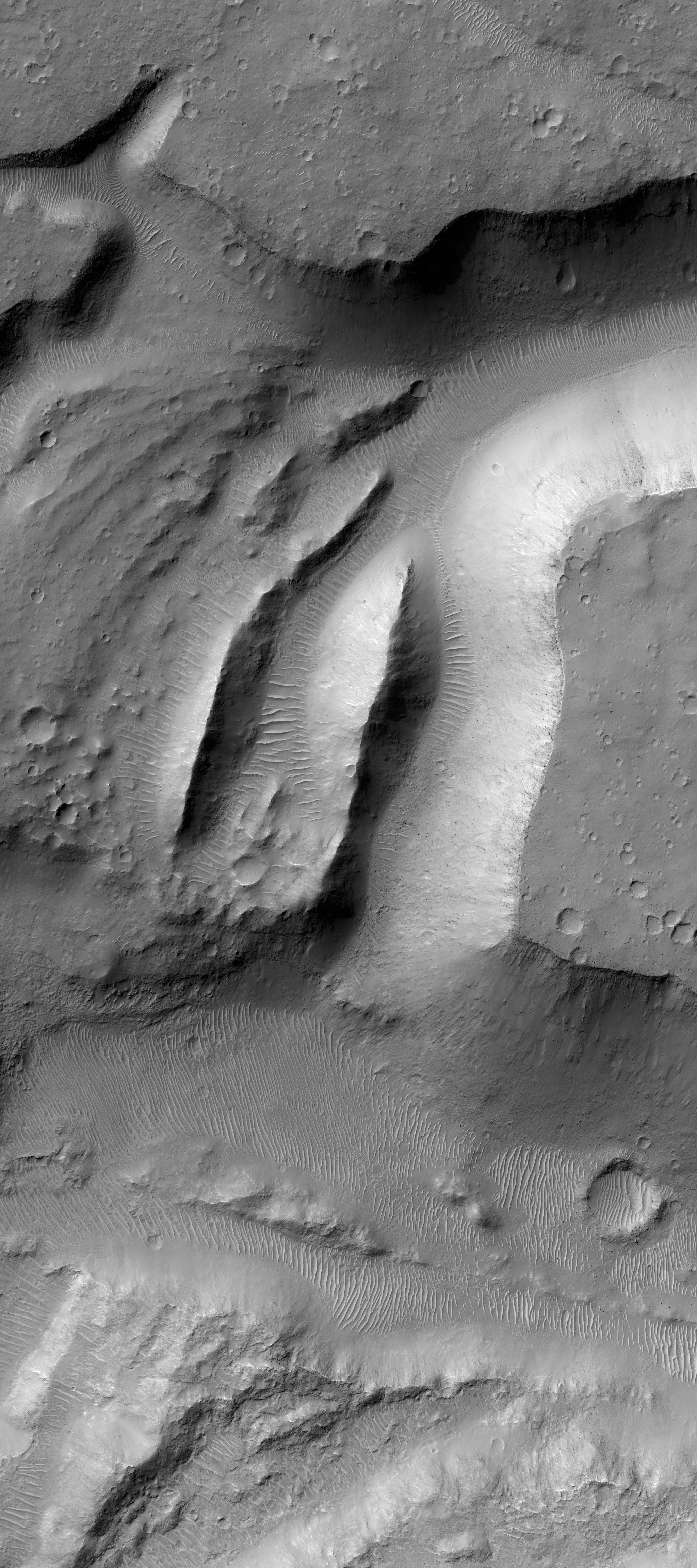 Part of a larger HiRISE image of Osuga Valles on Mars.